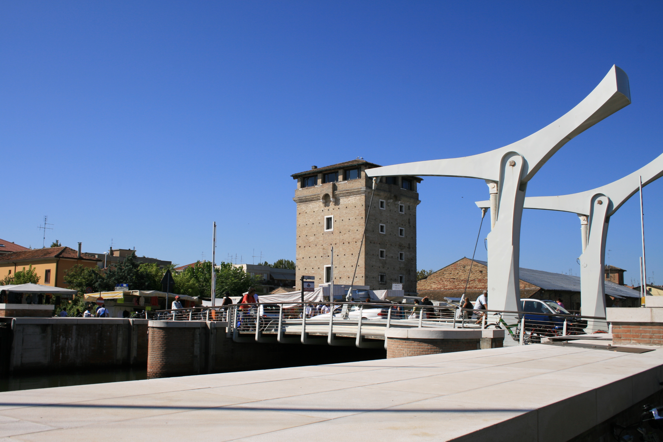 Cervia Torre San Michele